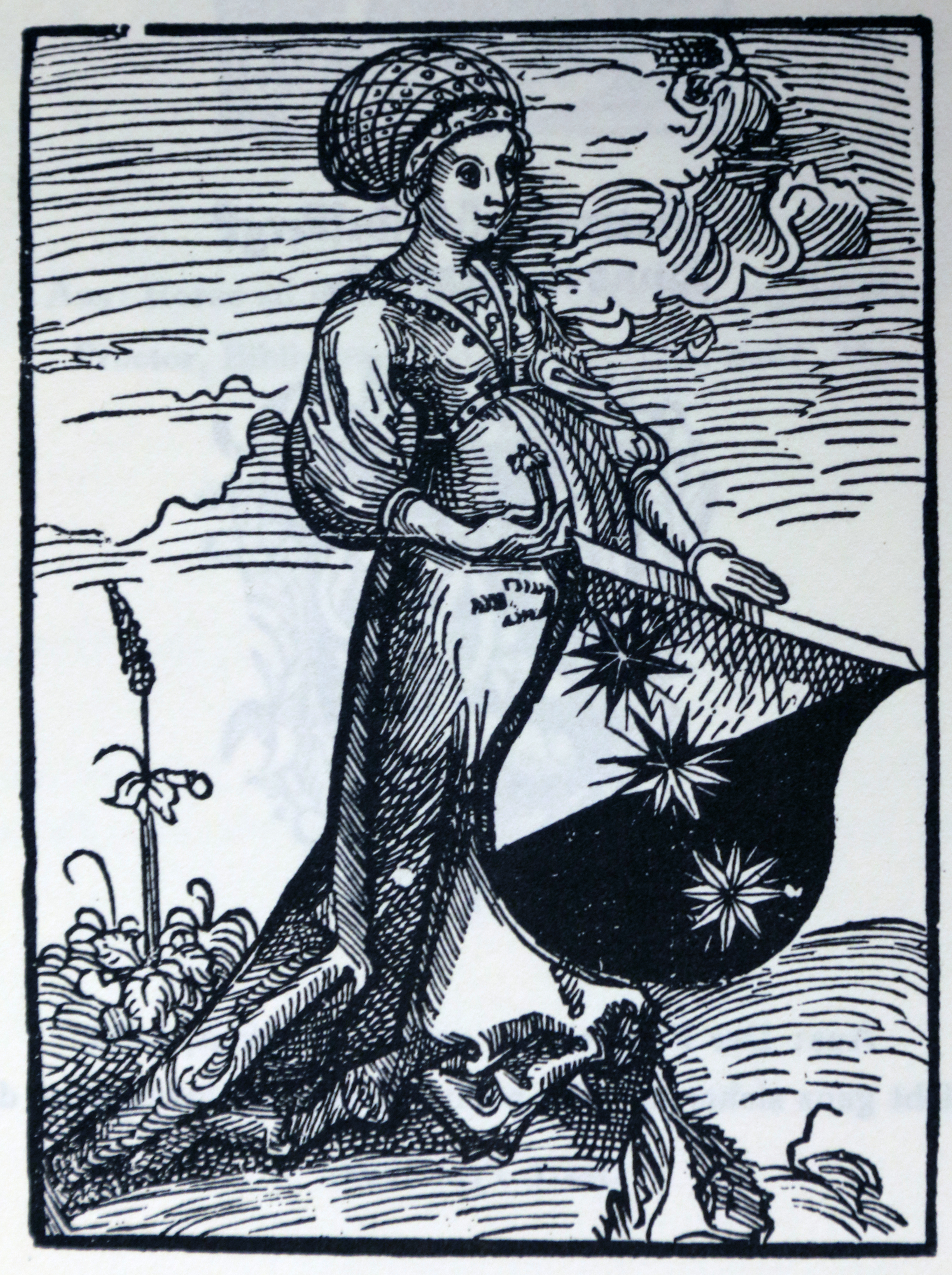 Druckerzeichen Friedich Riederer.